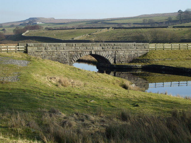 Blackton Bridge C19th stone bridge over the river Balder, as it flows between Balderhead & Blackton reservoirs. The bridge is used by the Pennine Way. Goldsborough can be seen in the far distance.